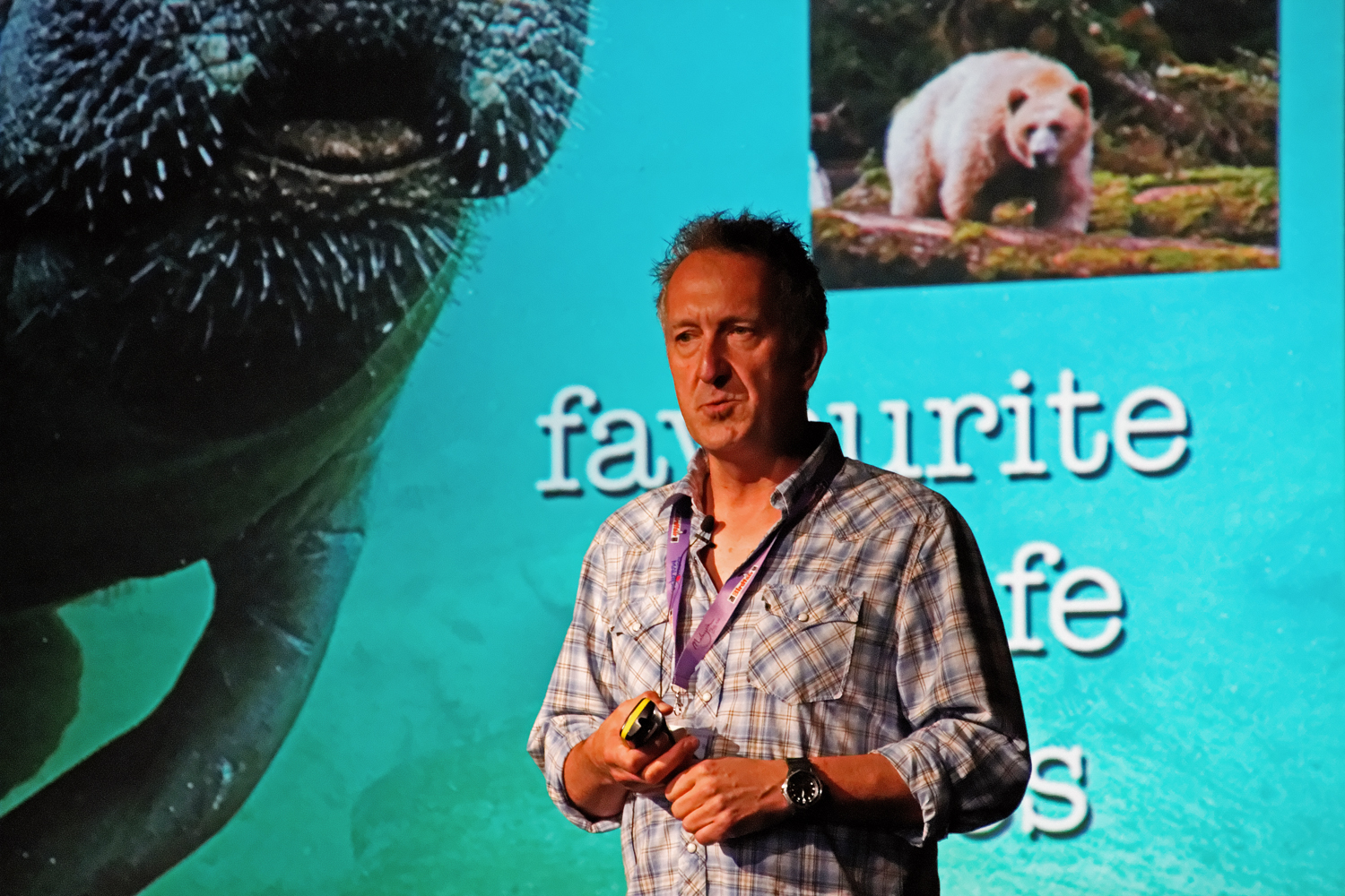 Mark Carwardine